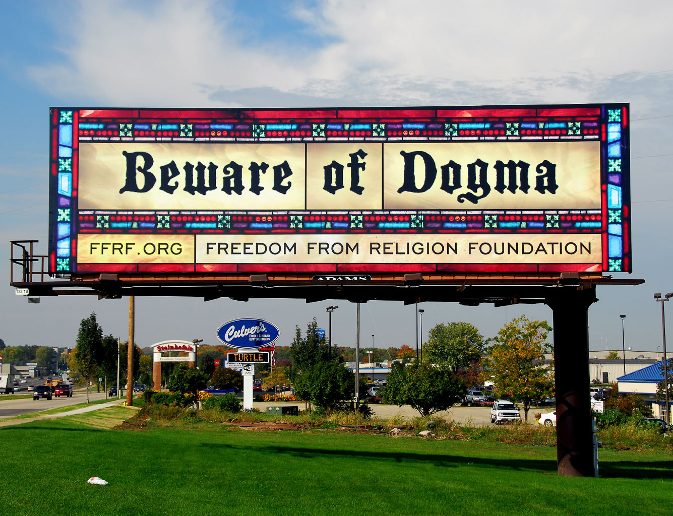 "Beware of Dogma" billboard of the Freedom From Religion Foundation. On West Beltline Frontage Road, next to Culver’s Restaurant, 2102 West Beltline Highway, Madison, WI.